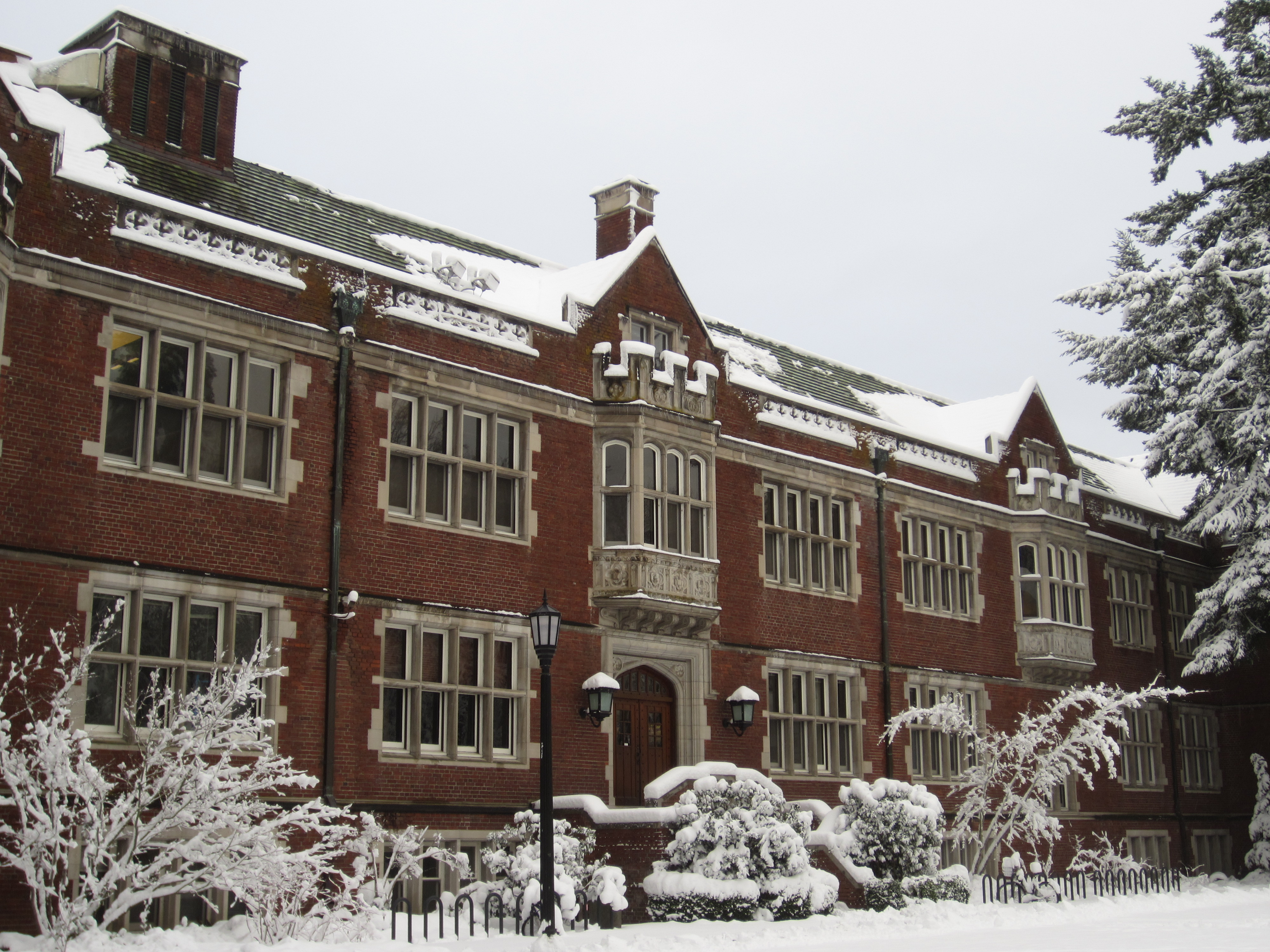 Winter storm, January 2017, southeast Portland, Oregon